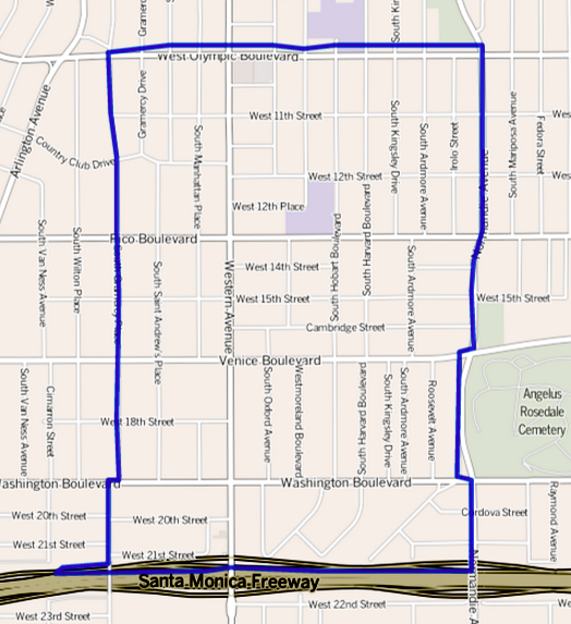 Map of the Harvard Heights neighborhood in Central Los Angeles, California. As outlined by the Los Angeles Times Mapping LA Project. Other information Boundary map as drawn by the Los Angeles Times on a CC-by-SA background. Note at bottom right of map on the L.A. Times website noted above says "CC-by-SA" (which gives permission to use the map). There is a link there to which explains the meaning thereof. The base map is credited to The Times spells all this out at